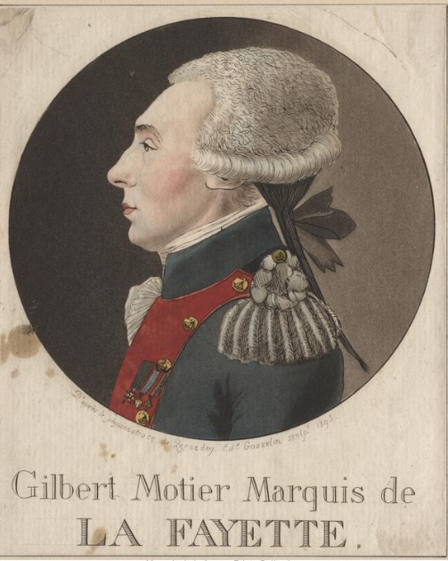 Portrait of Gilbert du Motier, Marquis de Lafayette (1757-1834)